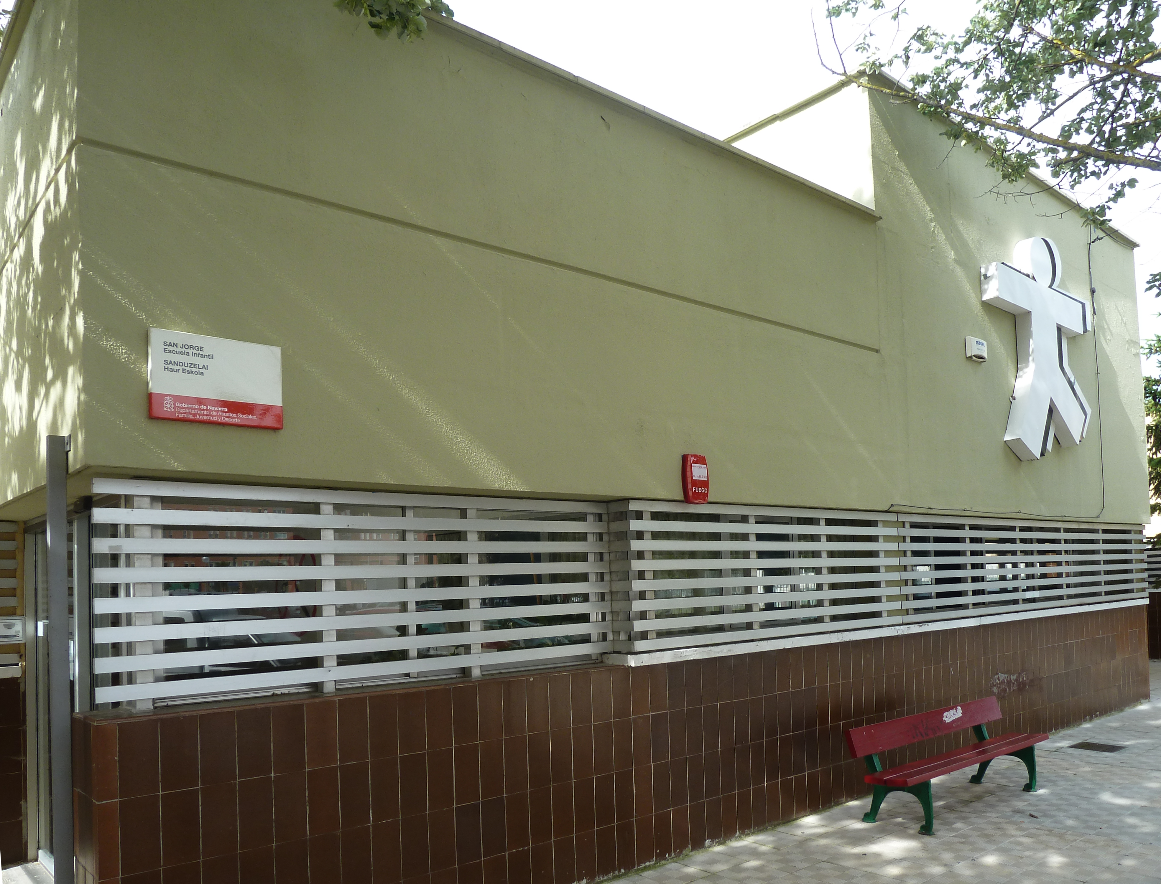 pre-school education center (0-3 years). It is responsible to Department of Social Policy of the Government of Navarre. It offers full-time care and the common language is Spanish. It is located in Doctor Reparaz Street, district of ​​San Jorge/Sanduzelai (Pamplona/Iruña)